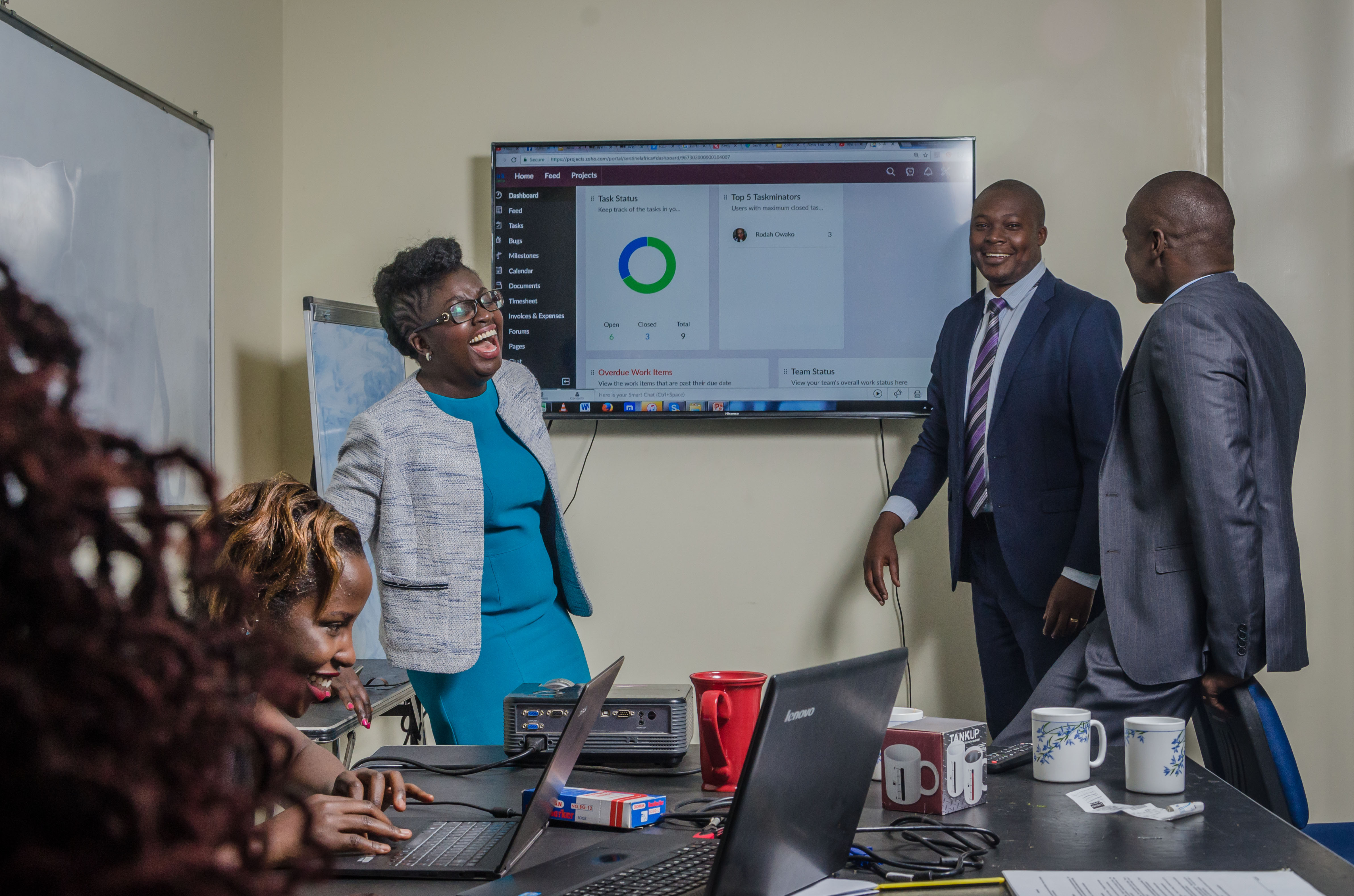 Fun at work. Performance evaluation and reporting the fun way at Sentinel Africa - Kenya This is an image of "African people at work" from Kenya